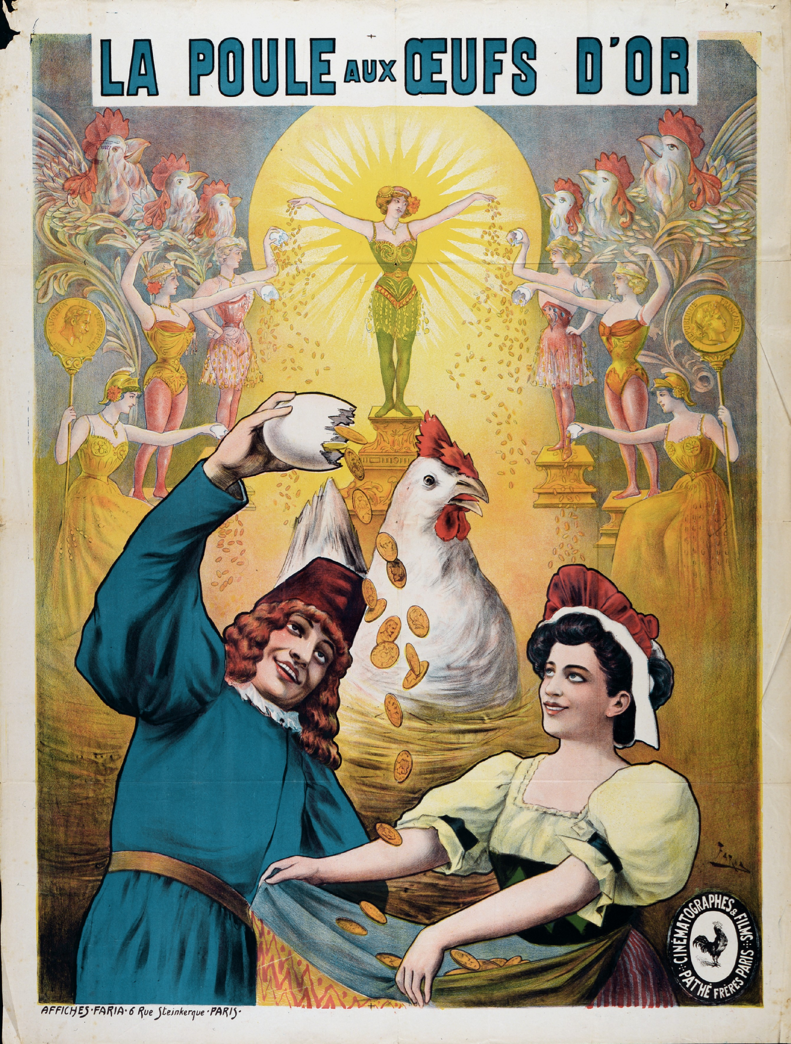 Poster for Pathé Frères (France). Film: Poule aux oeufs d'or, La (FR, Gabriel Moreau [?], Gaston Velle, 1905, Pathé Frères). Distributor: Internationaal Filmverhuurkantoor Jean Desmet (Amsterdam).